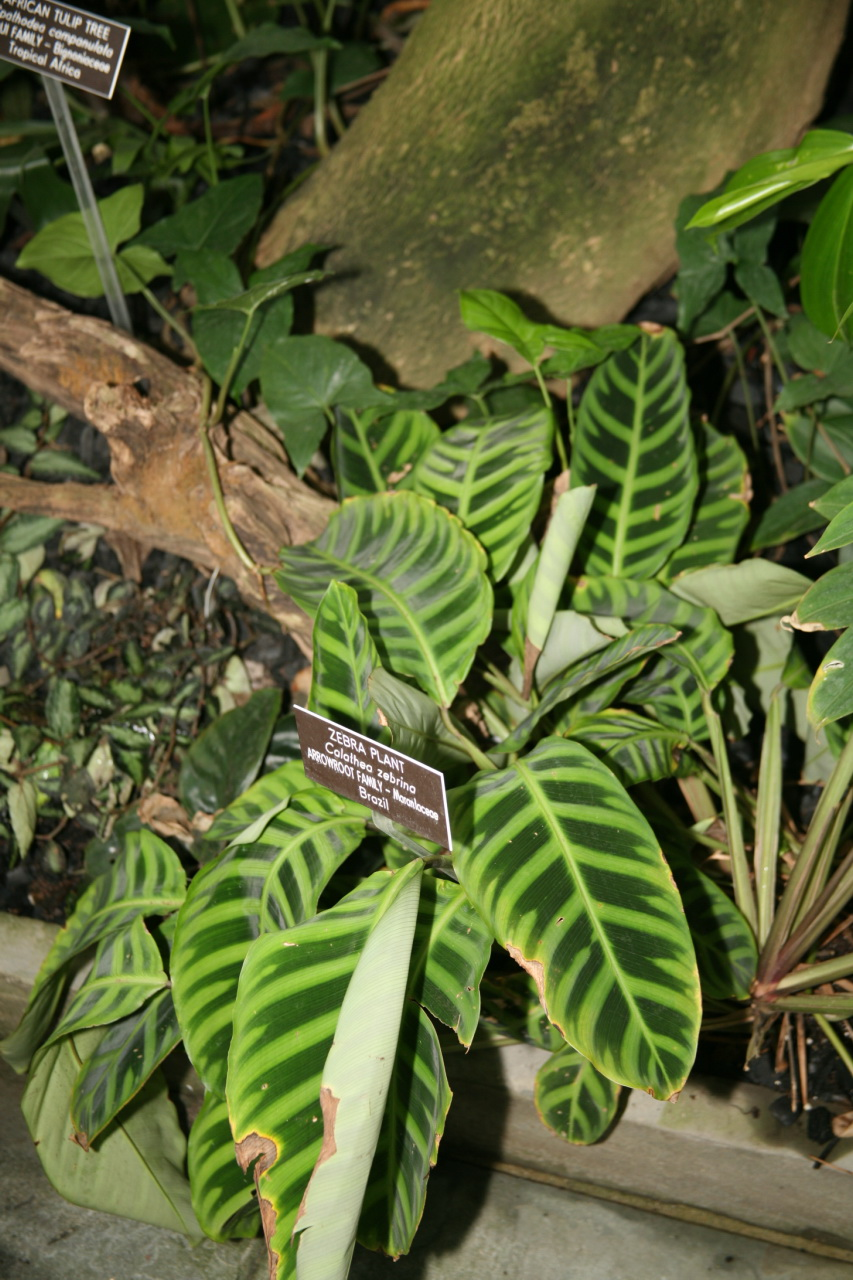 Zebra Plant (Calathea zabrina) Arrowroot Family